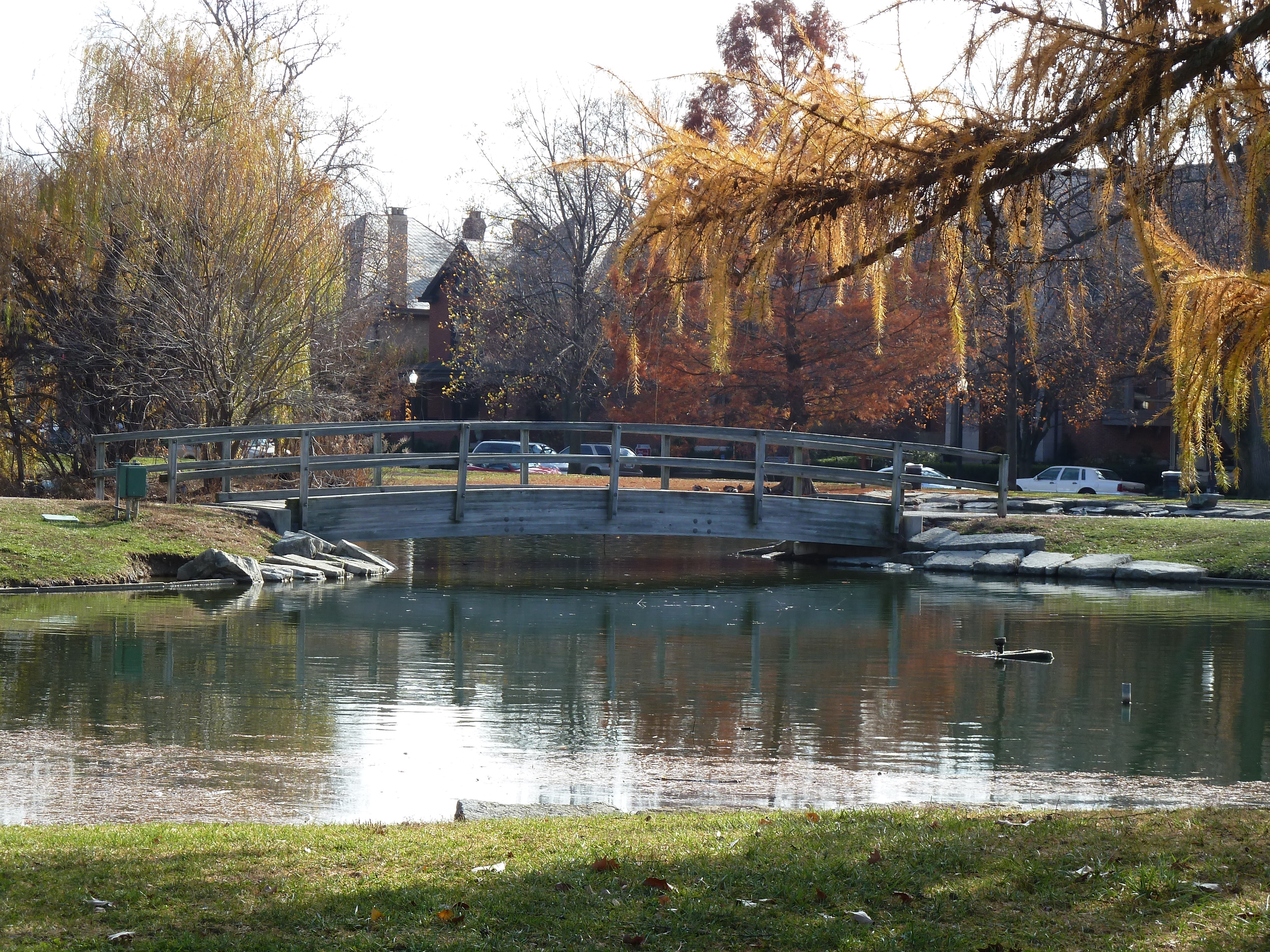 German Village in 2010 by Mark Sundstrom.